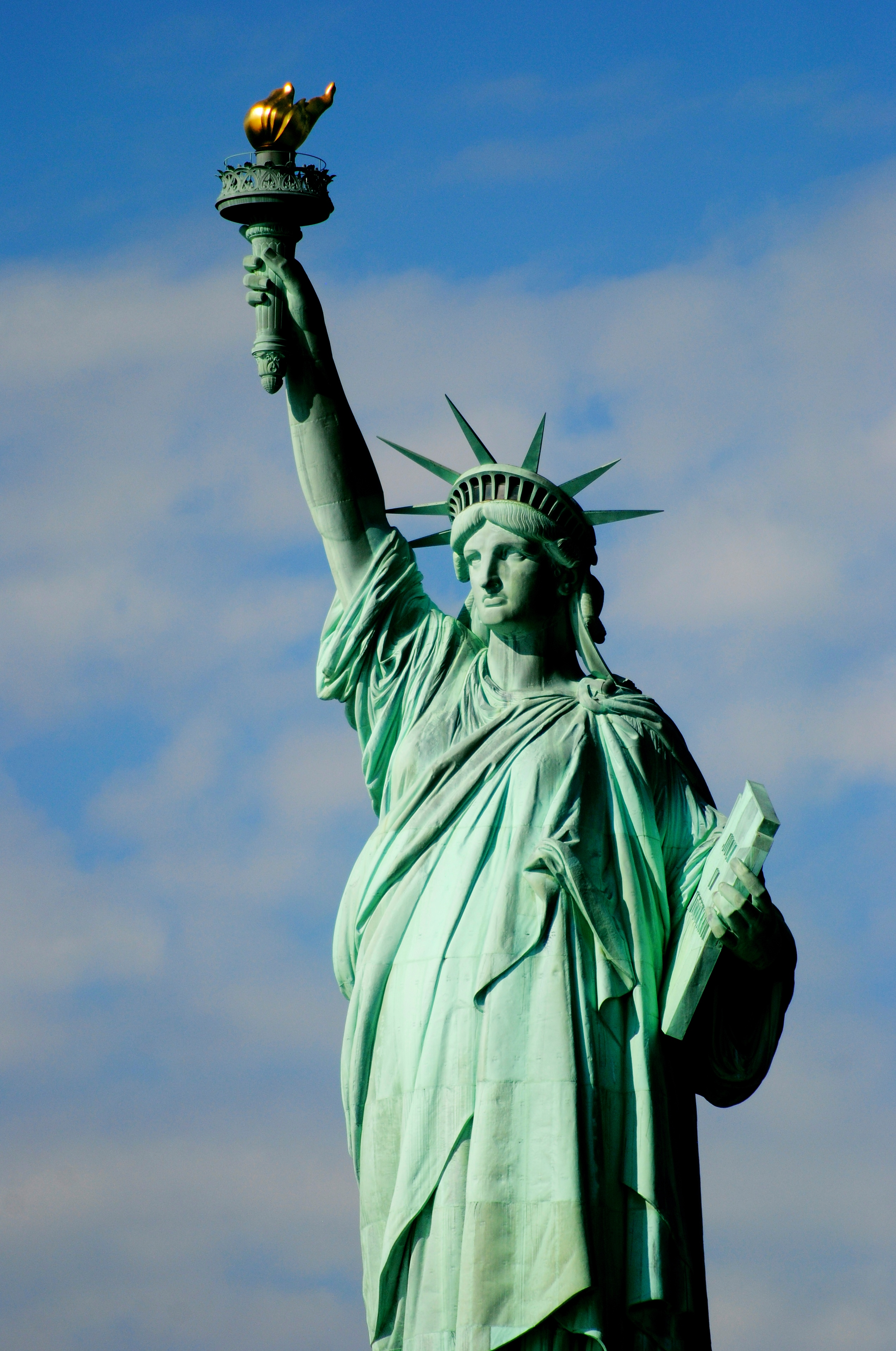 Statue of Liberty